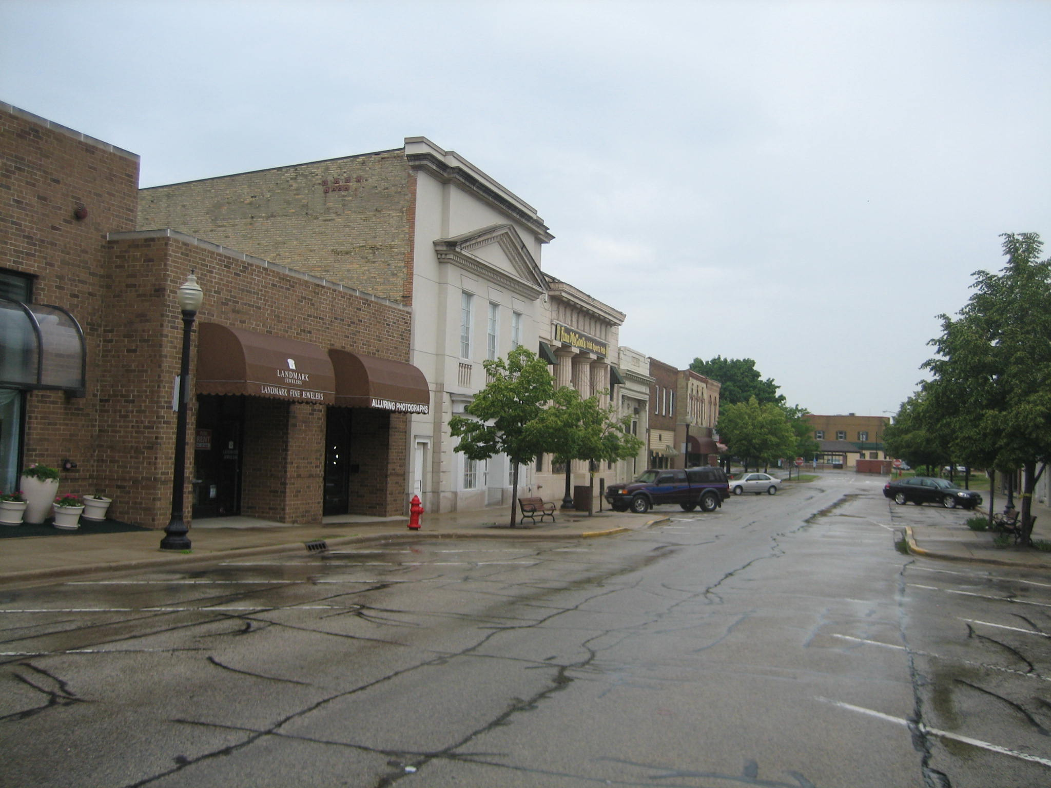 Downtown Crystal Lake, Illinois, USA